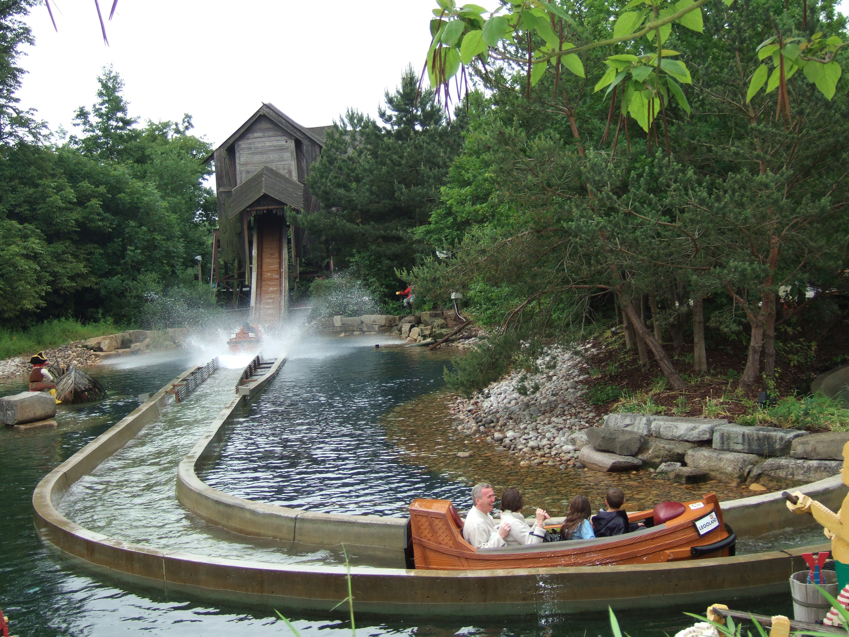 Pirate Falls, Legoland Windsor, Berkshire, UK